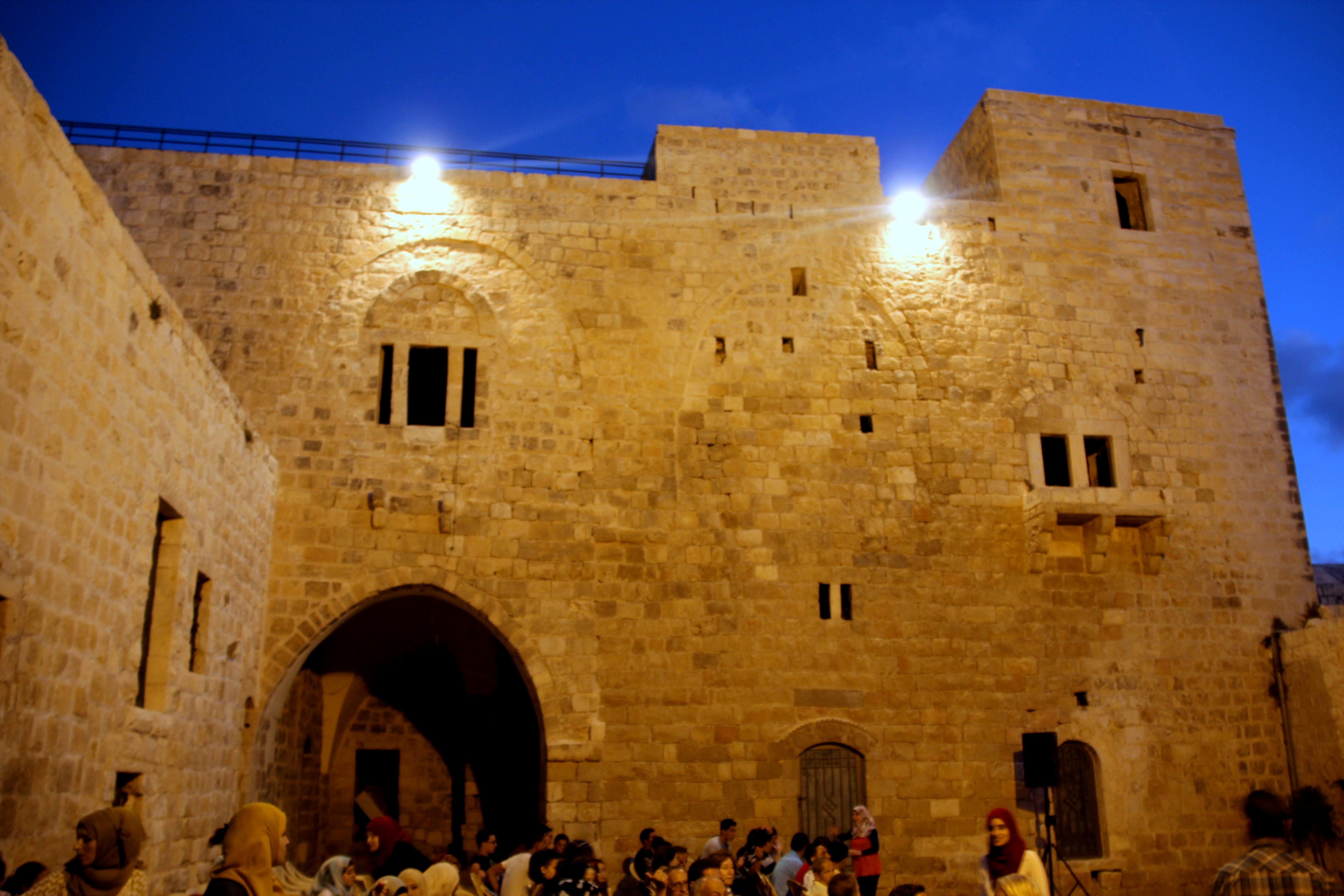 Courtyard of Al Samhan Castle, Ras Karkar